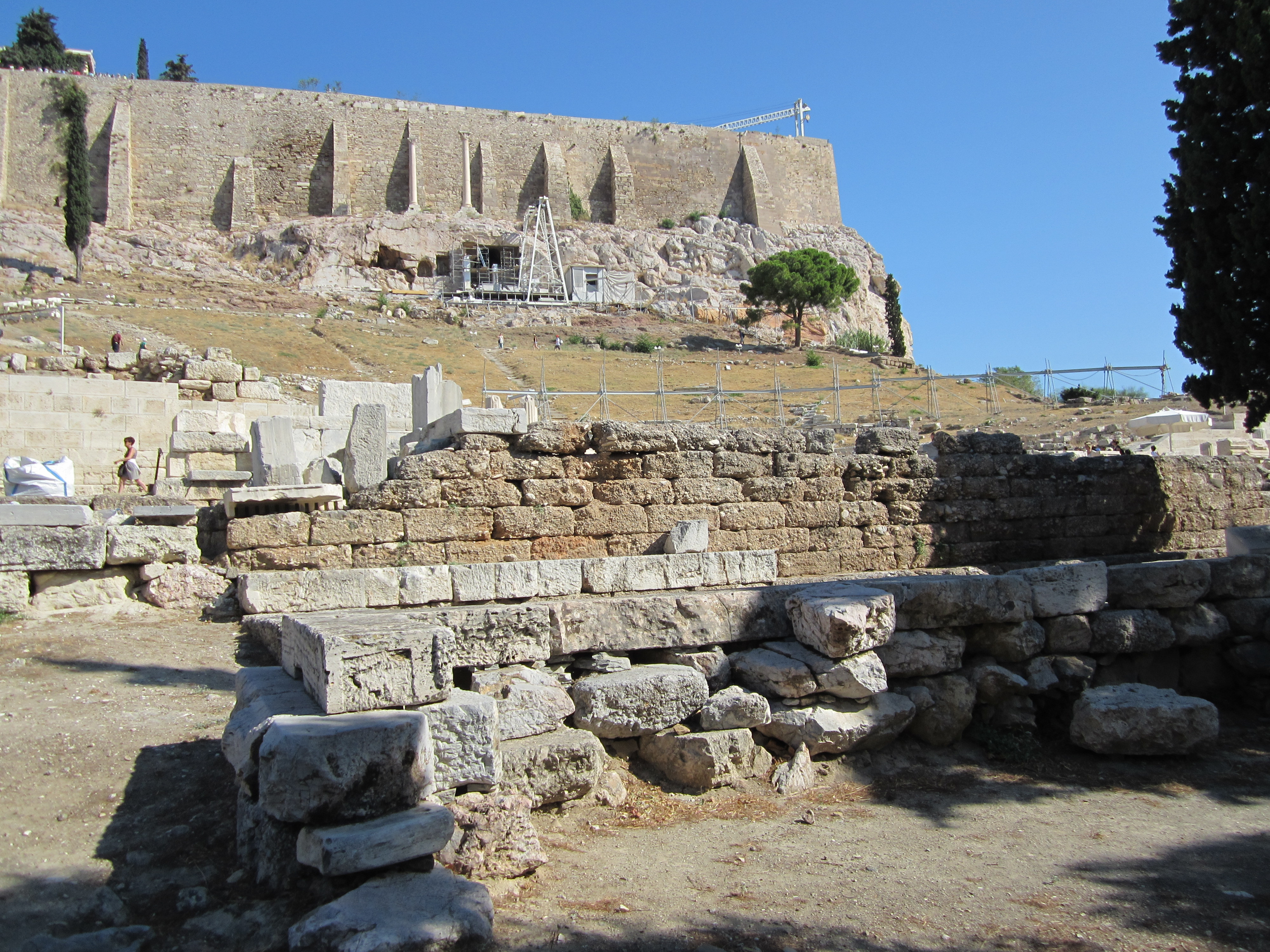 Ruins of the Sanctuary of Dionysus Eleuthereus, Acropolis of Athens.